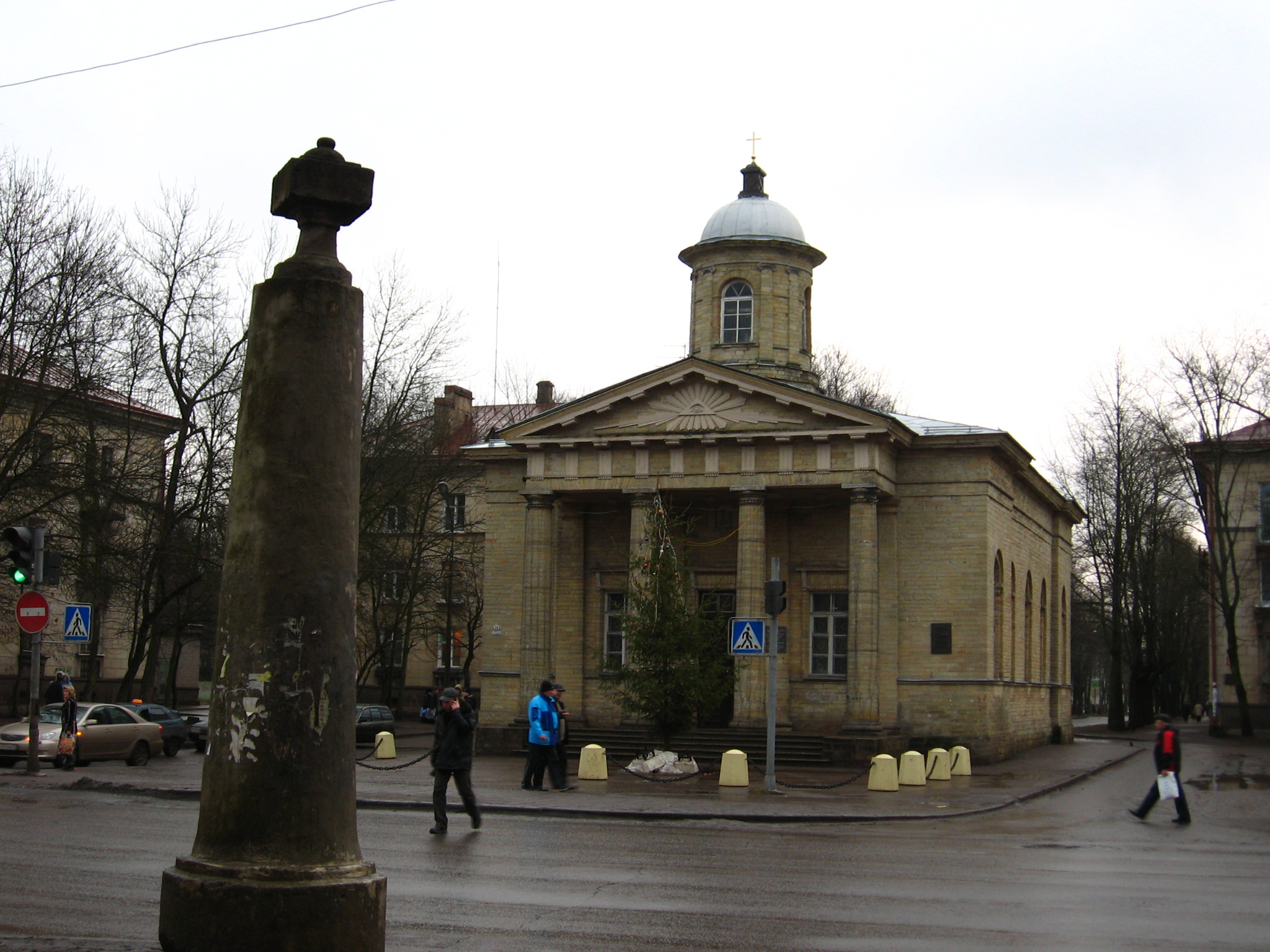 Milestone near Nikolaevskaya Kirch in Gatchina